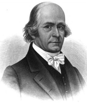 Paul Brigham, evolutionary War officer, Vermont Lieutenant Governor, Vermont Governor